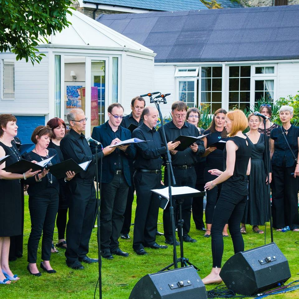 Côr ABC